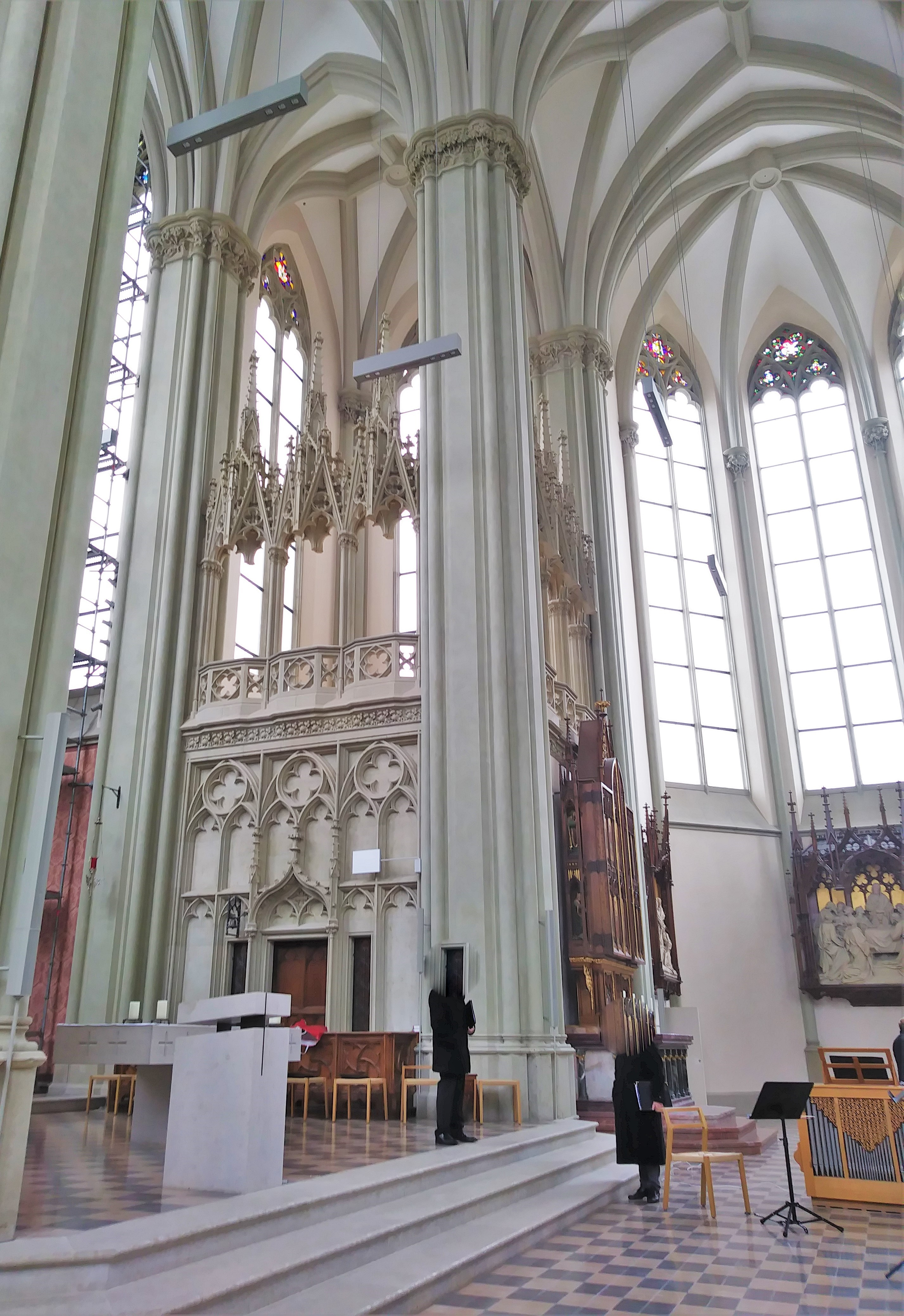 Interior of Heilig-Kreuz-Kirche (Giesing)